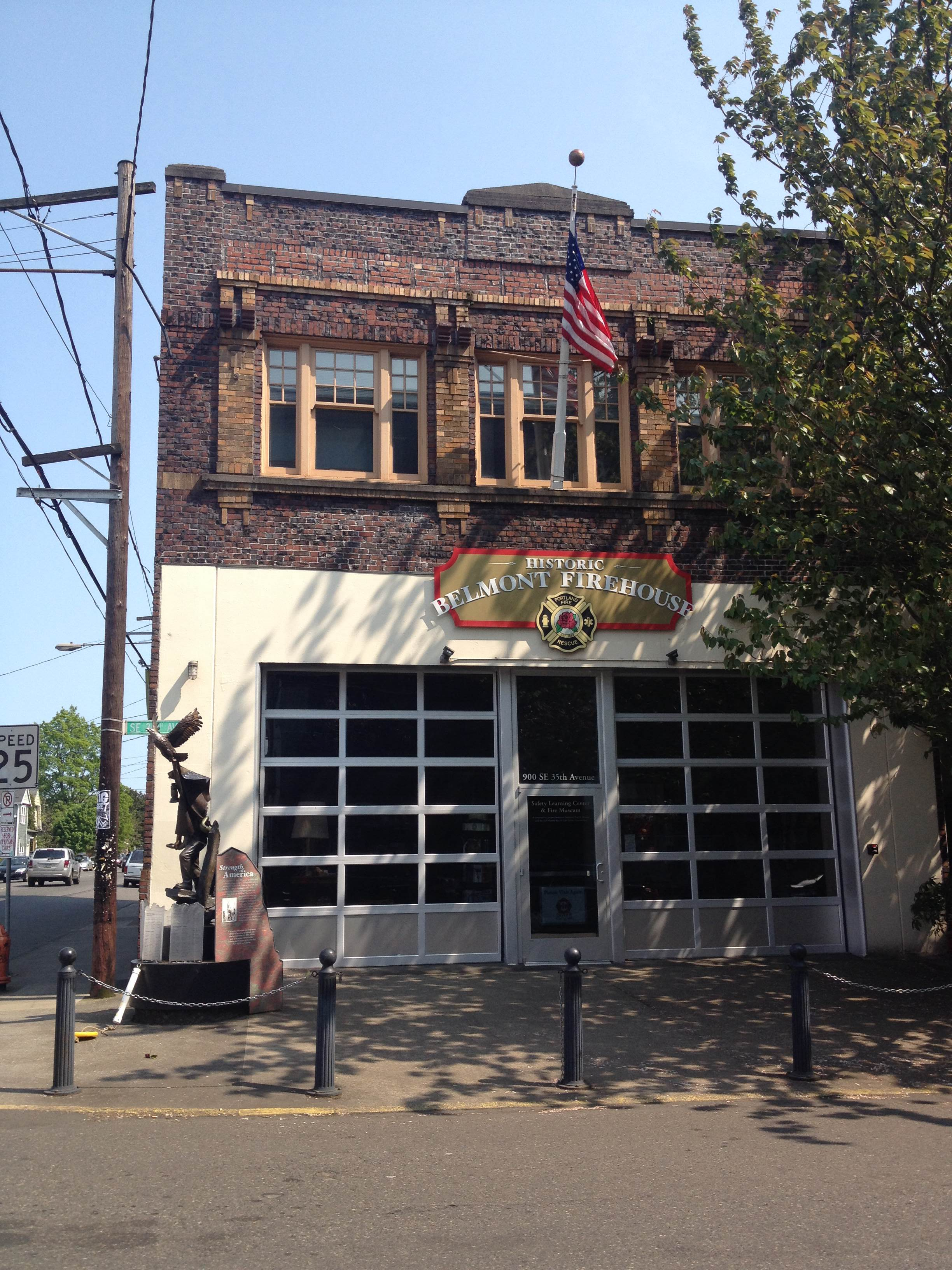 Historic Belmont Firehouse in Sunnyside Neighborhood, Portland, Oregon